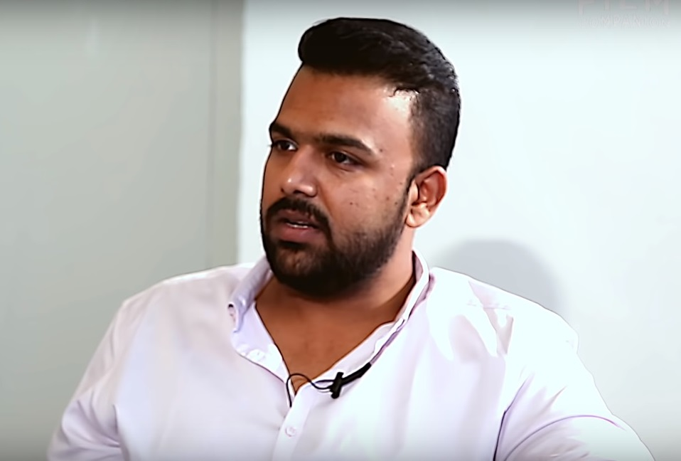 Indian filmmaker Tarun Bhascker in an interview with Film Companion South